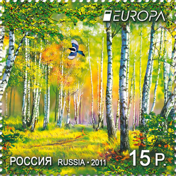 Stamp of Russia. Issue by “Europa” programme. Forest.